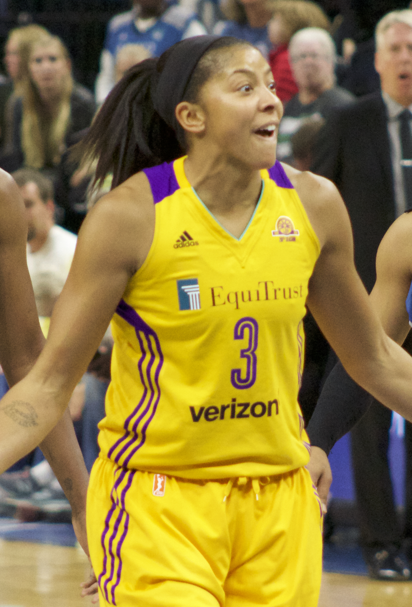 Candace Parker of the Los Angeles Sparks surrounded by the Minnesota Lynx